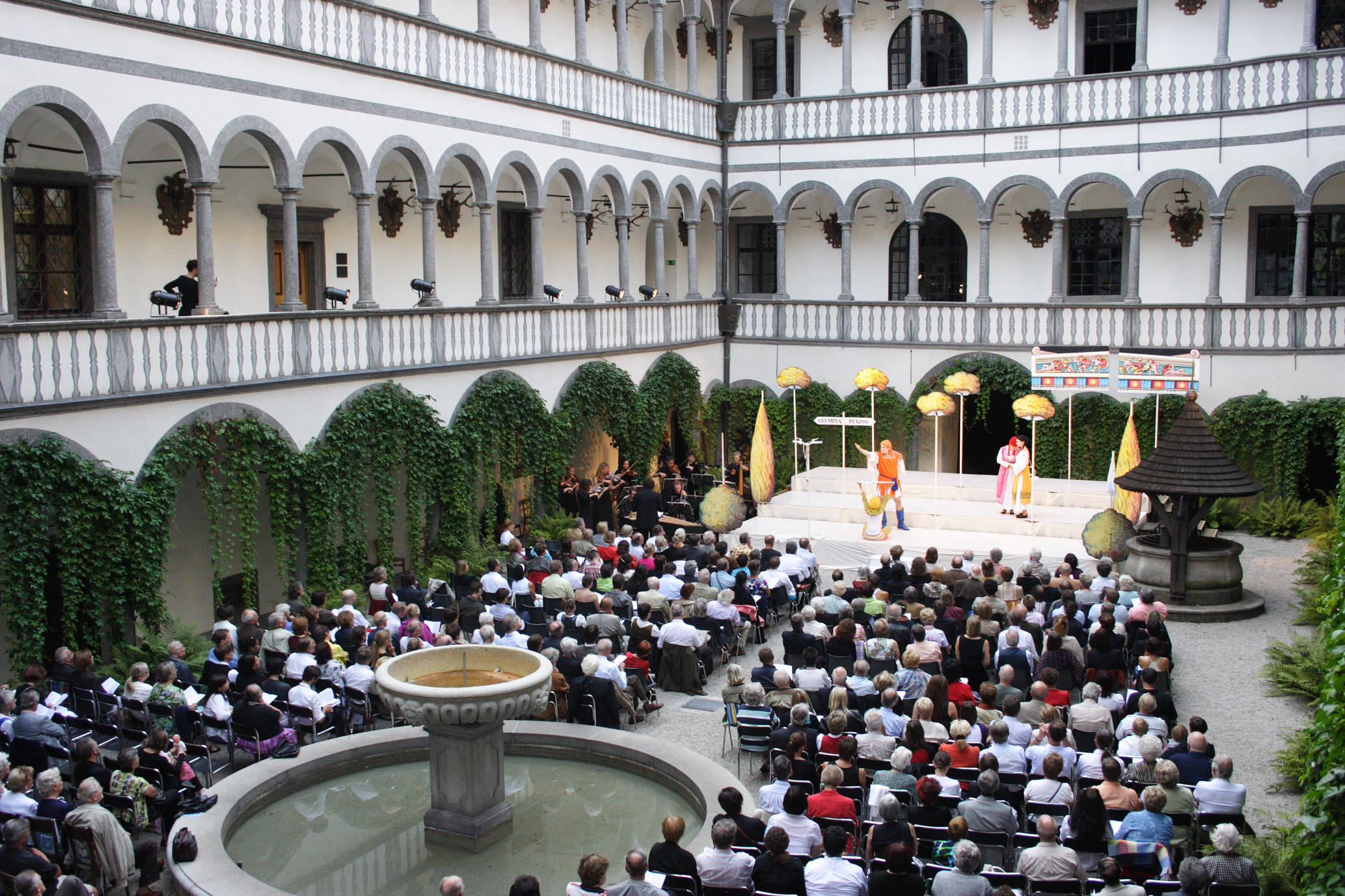 View on a scene from Antonio Vivaldi's 1734 opera L'Olimpiade at the Donaufestwochen 2008